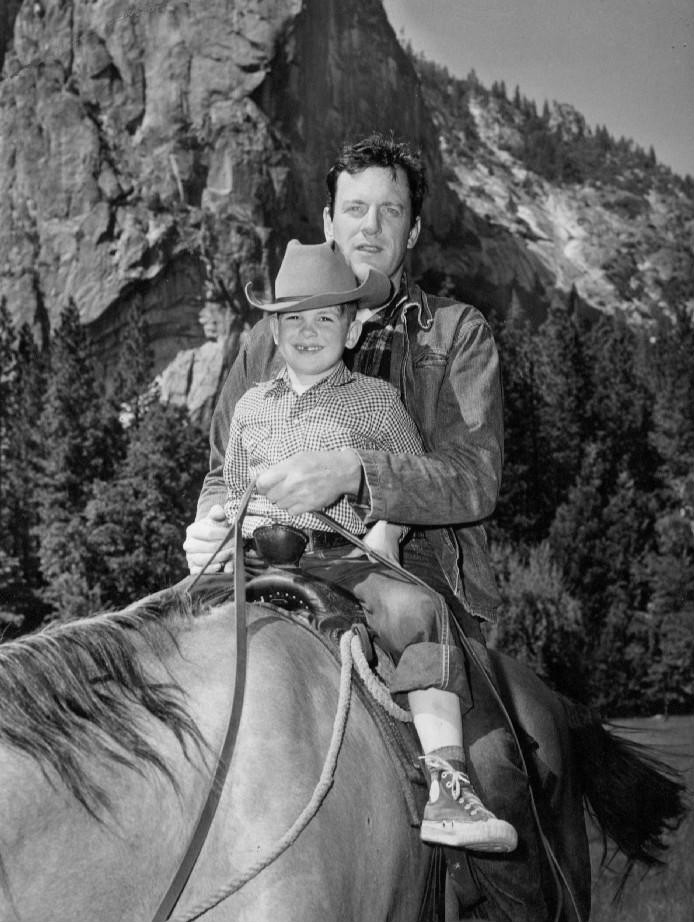 Publicity photo of James Arness on horseback with his son, Rolf.